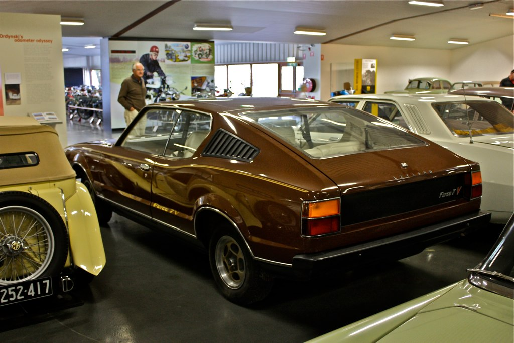 Leyland Force 7 two door hatchback at the National Motor Museum, Birdwood.